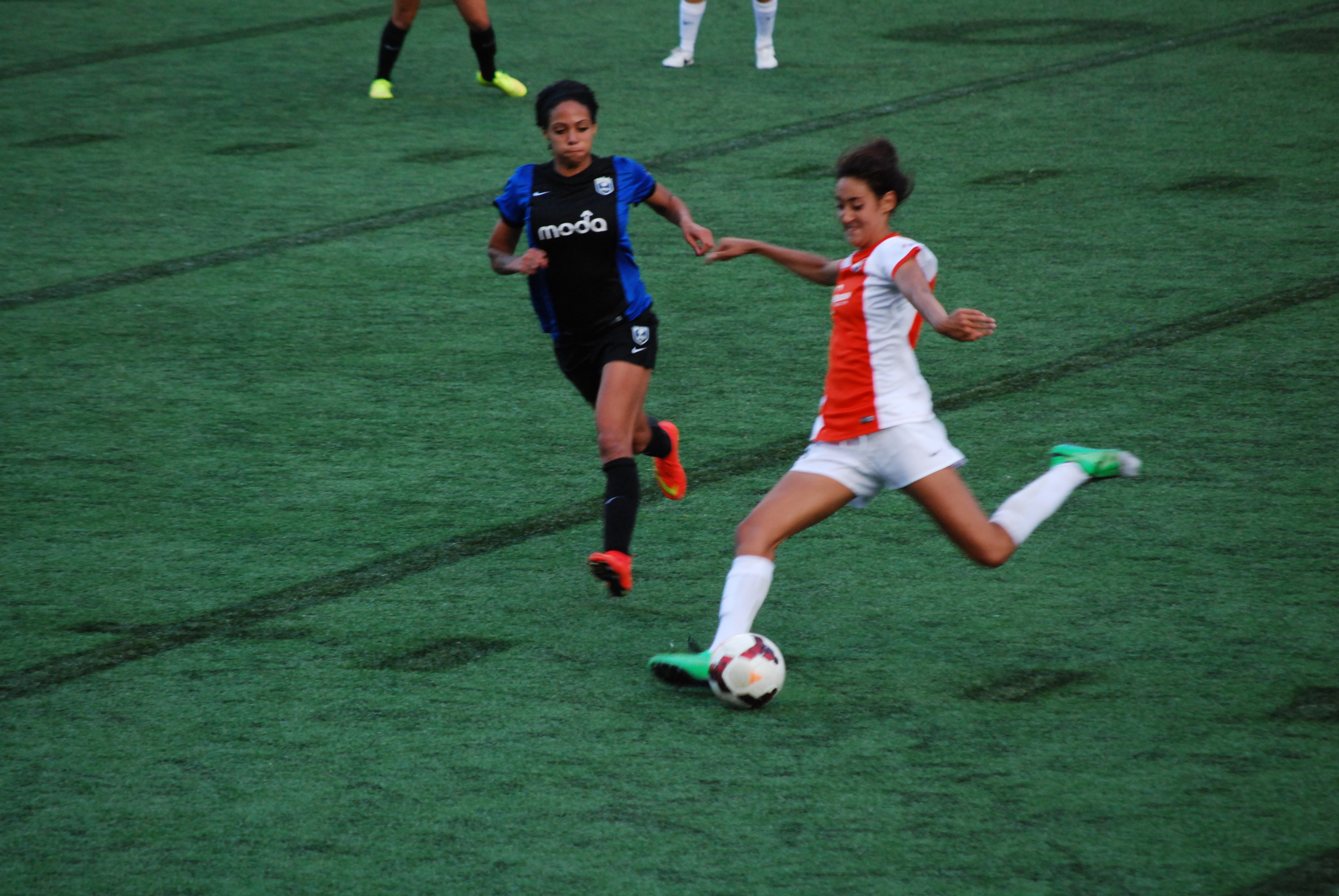 Seattle Reign FC vs Sky Blue FC Memorial Stadium, Seattle Center Seattle, WA June 28, 2014